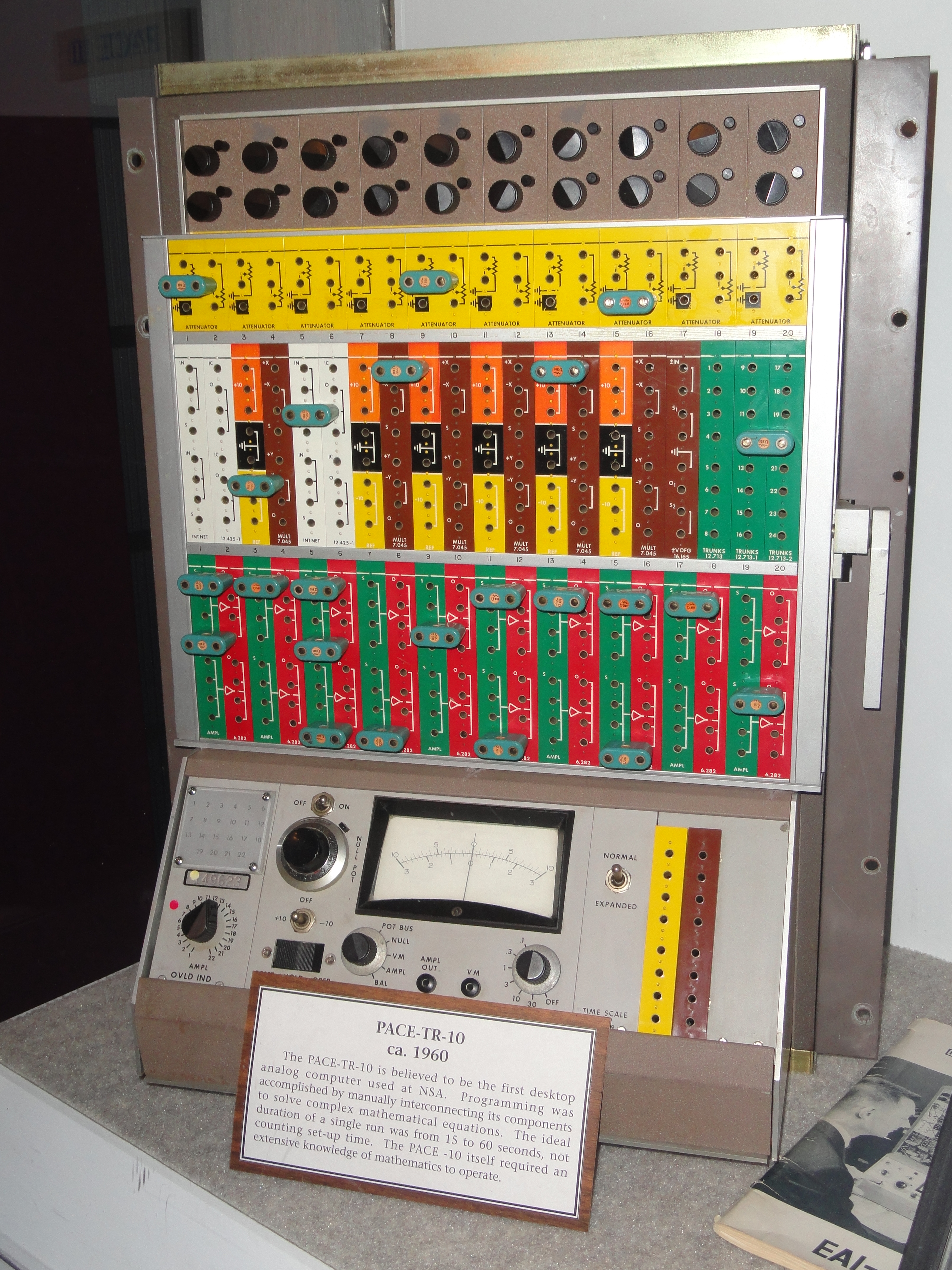 Photo of old analog computer used for solving differential equations in real time. It was programmed by electrical wires connecting summation point operational amplifiers. The front panel can be removed and replaced with another panel programmed with another problem to be solved. These type units were in use around 1965 to 1970 and were manufactured by Electronic Associates, Inc. (EAI). Exhibit in the National Cryptologic Museum, Fort Meade, Maryland, USA. All items in this museum are unclassified; items created by the United States Government are not subject to copyright restrictions.